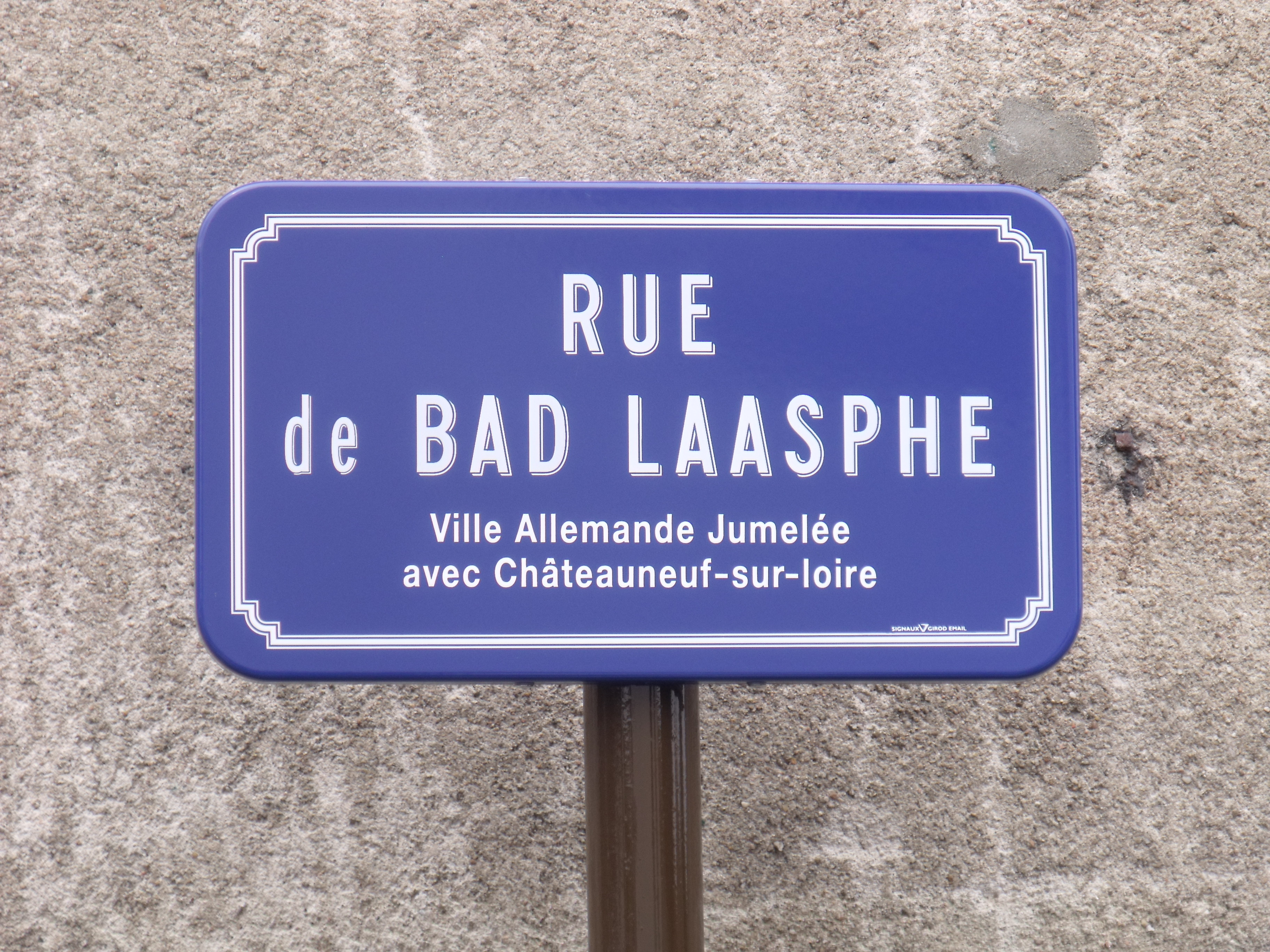 Bad Laasphe street in Châteauneuf-sur-Loire (France).